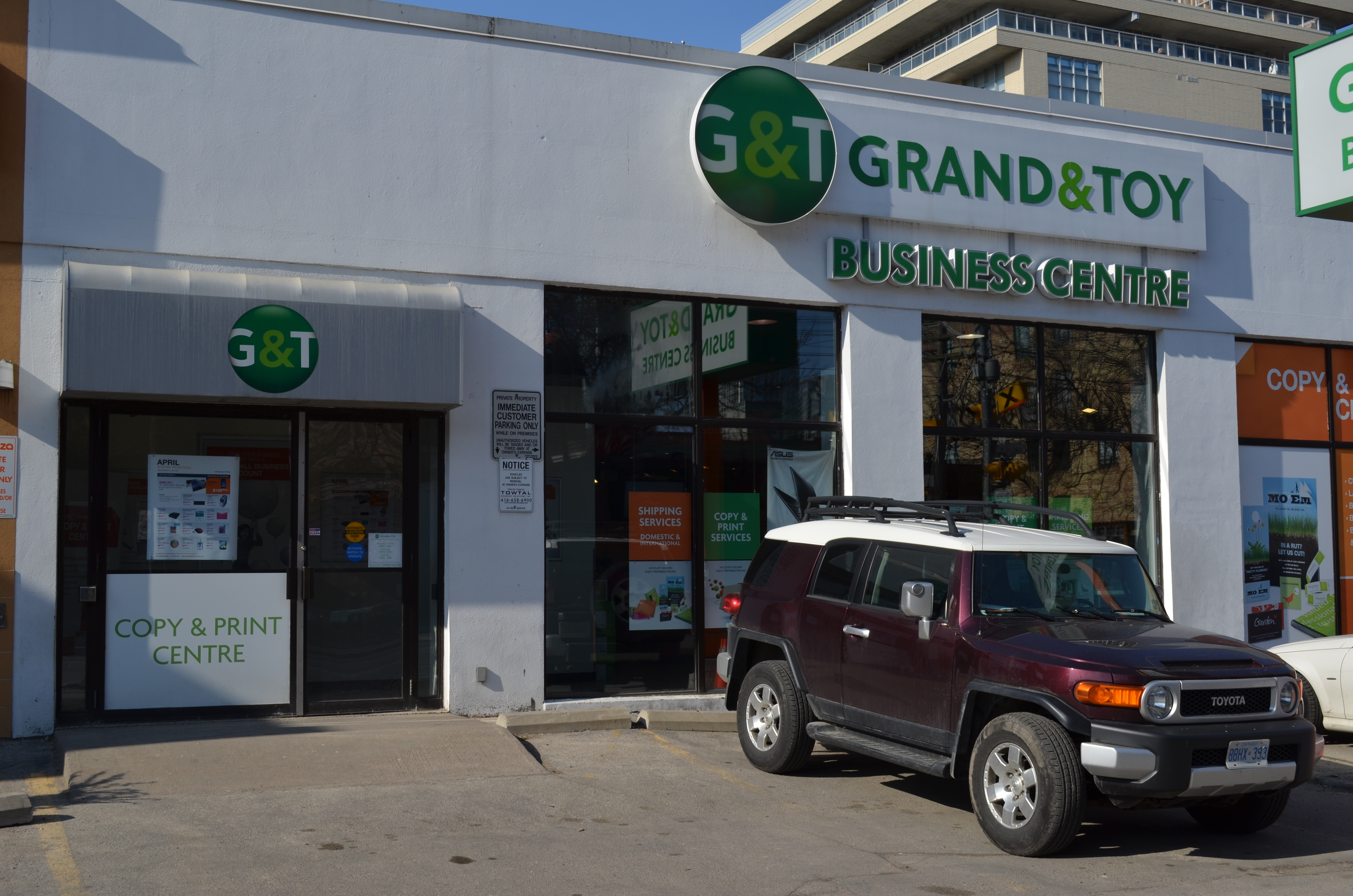 Grand & Toy at 540 King Street West Toronto, M5V 1M3